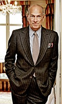 foto di matti